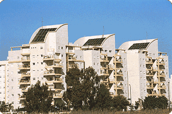 Modern Israeli homes with solar hot water heating on the roof